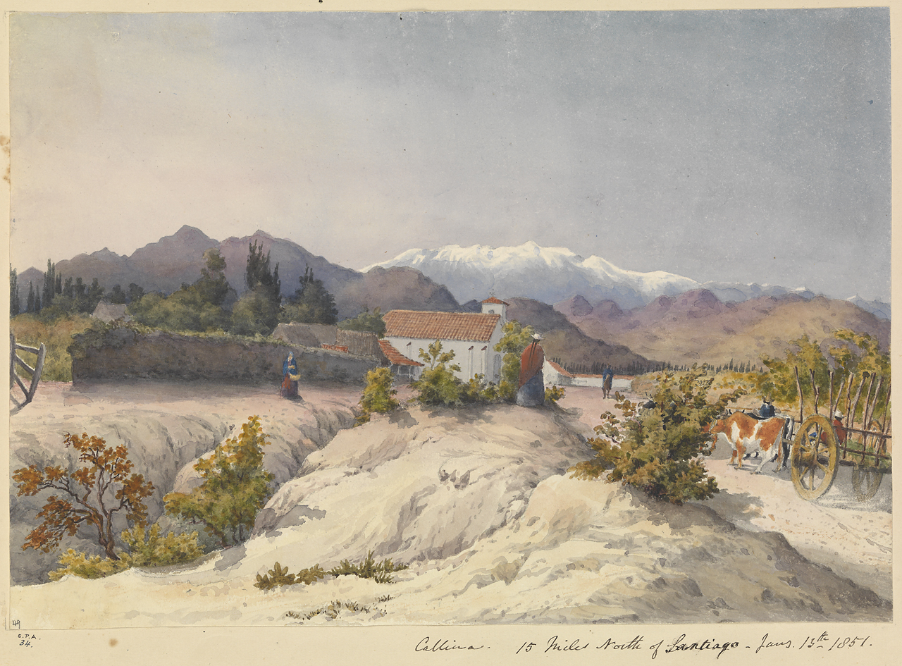 'Callina [Colina], 15 miles north of Santiago, Jany 13th 1851' [Chile].